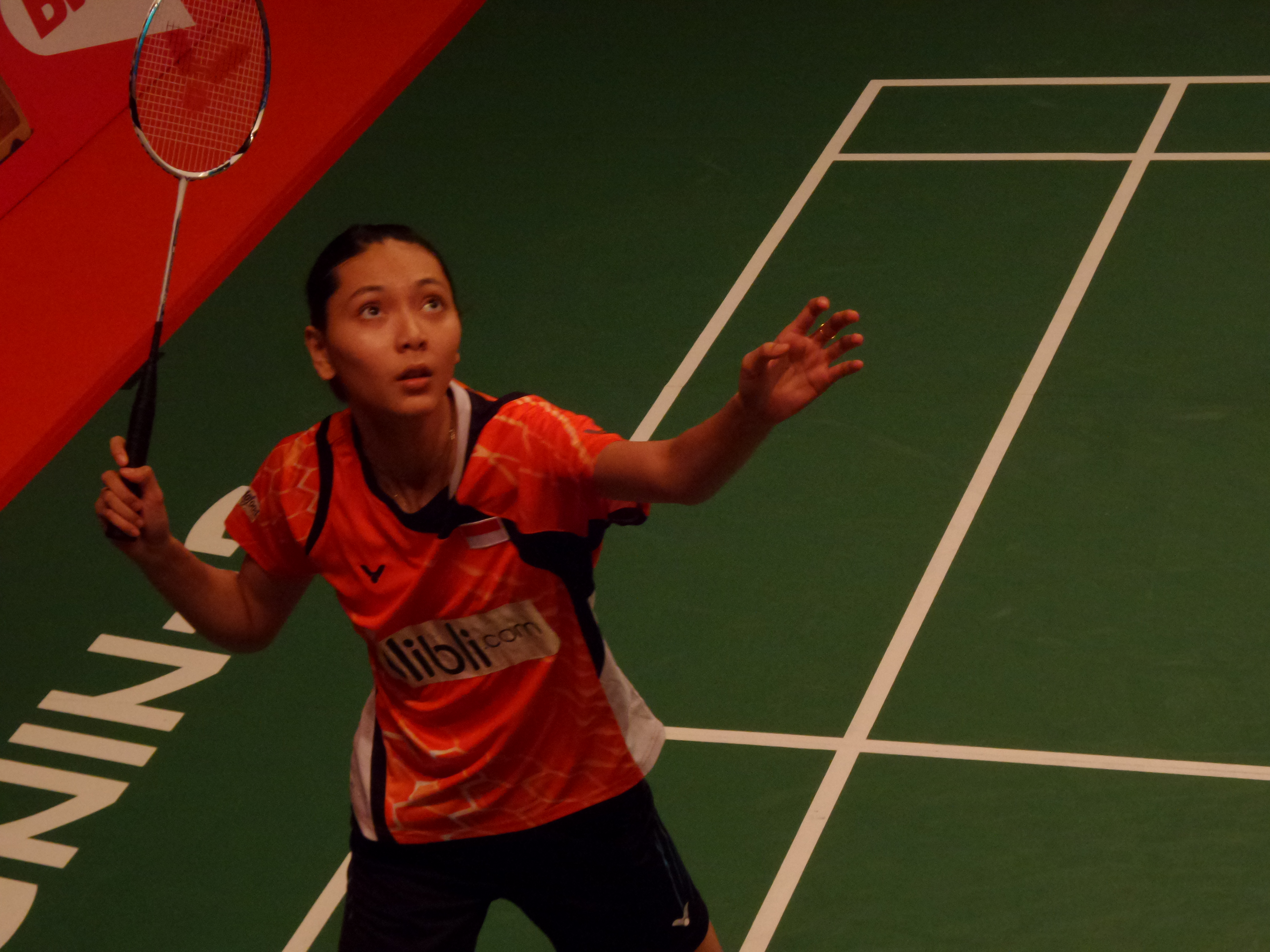 Gloria Emanuelle Widjaja in action during BWF World Championships Day 2